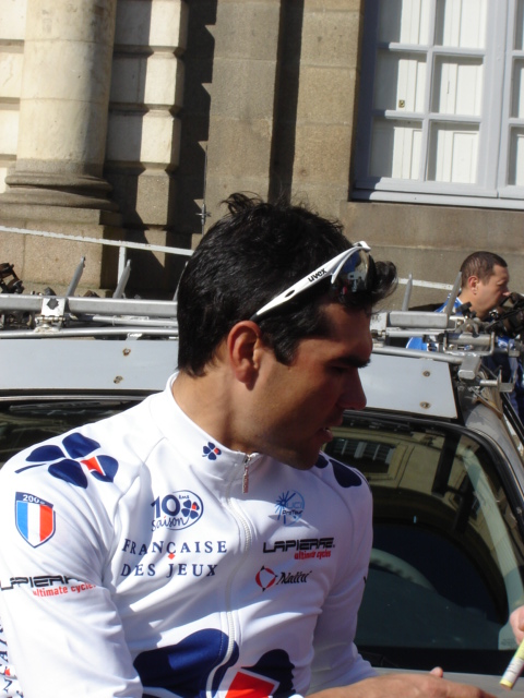 Carlos Da Cruz, GP de Rennes 2006